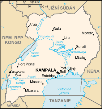 Map of Uganda with Czech description.